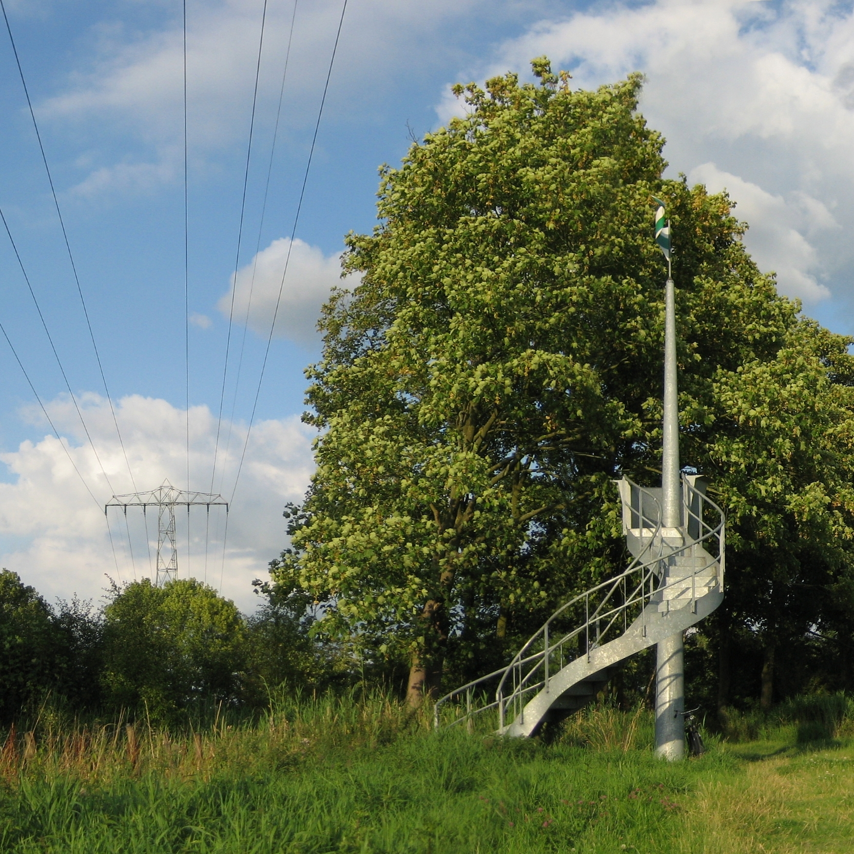 Observation tower near the former Castle of Selwerd in the Dutch city of Groningen.